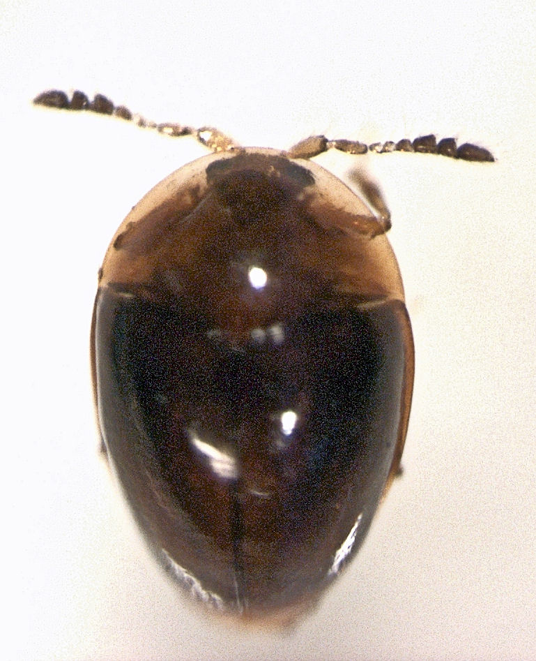 adult Corylophus sp., body length 0.8 mm